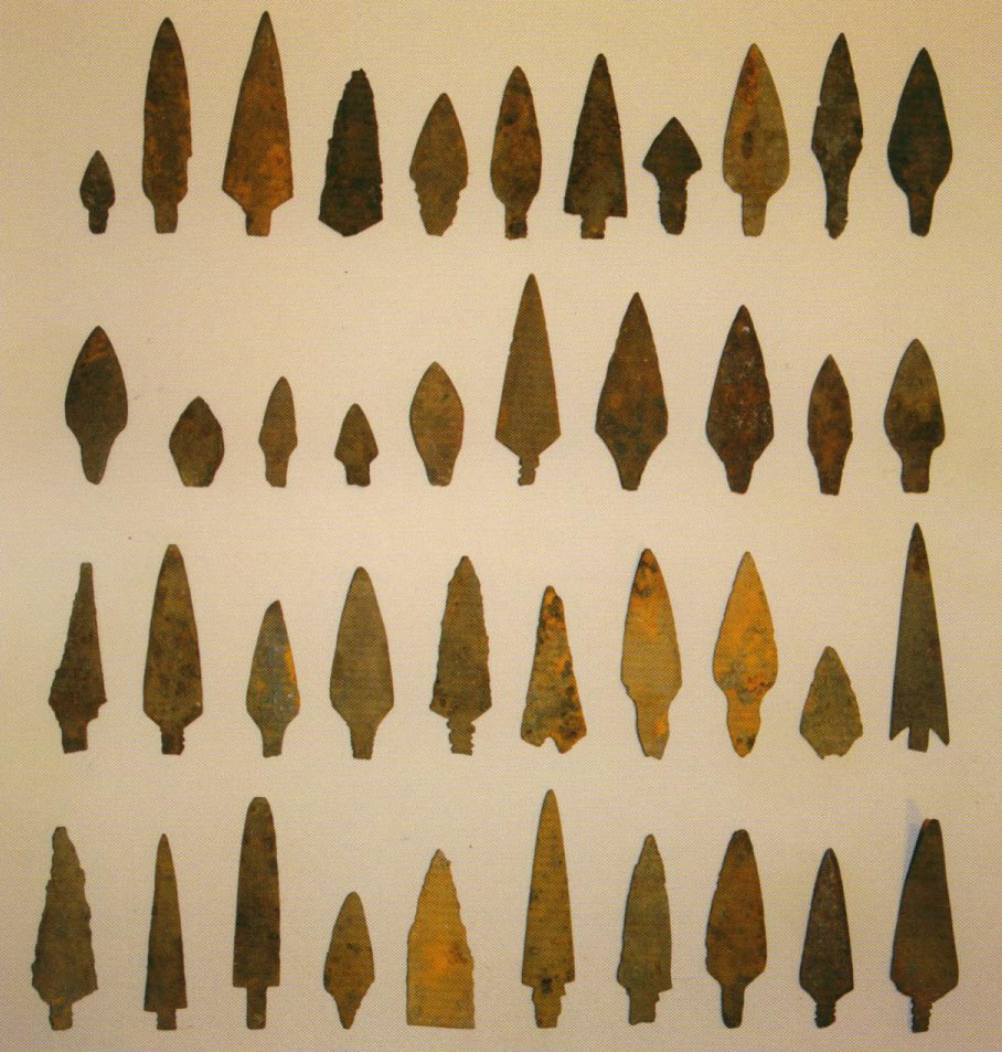 Cover picture from a USDA reoprt